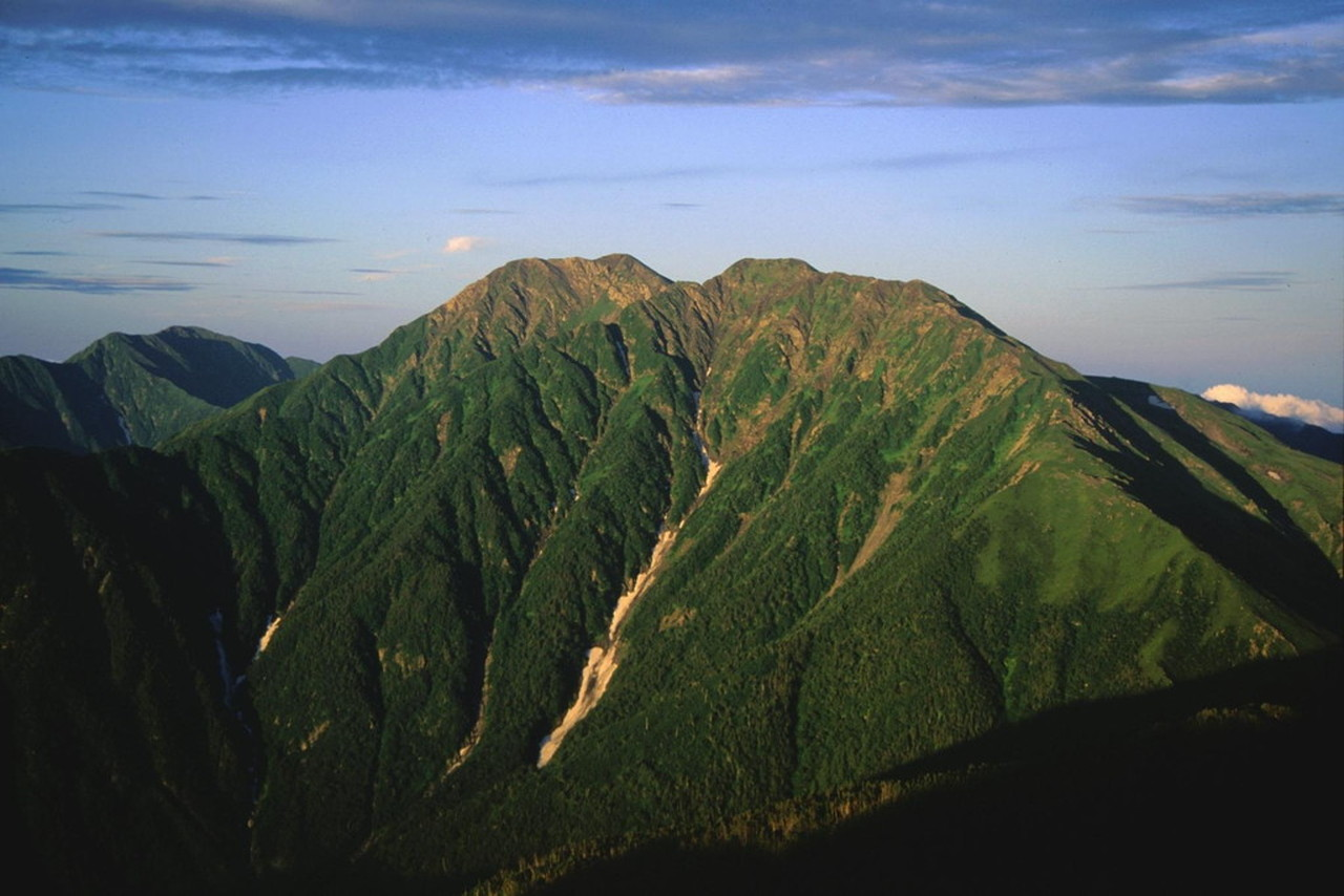 Mount Akaishi from Mount Senmai